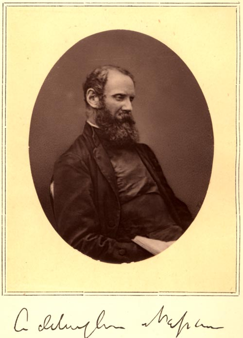 Portrait of Addington Venables (1827–1876), Anglican colonial bishop.